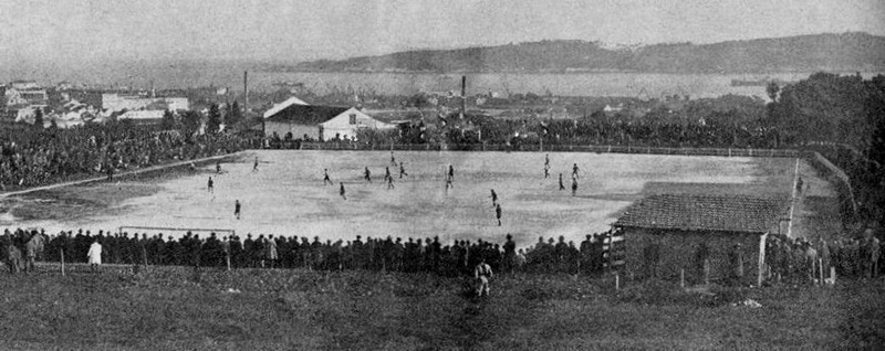 Field of Tapadinha, home o Carcavelinhos FC.